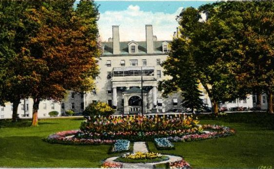 Postcard view of the Maine State Hospital (aka the Maine Insane Hospital), Augusta, Maine.